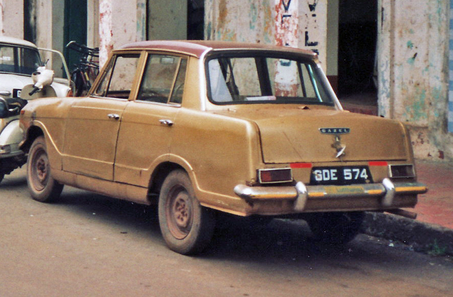 Rear view of a Standard Gazel (super rare four-door Triumph Herald copy built in Madras) seen in Goa, India, October 1994.